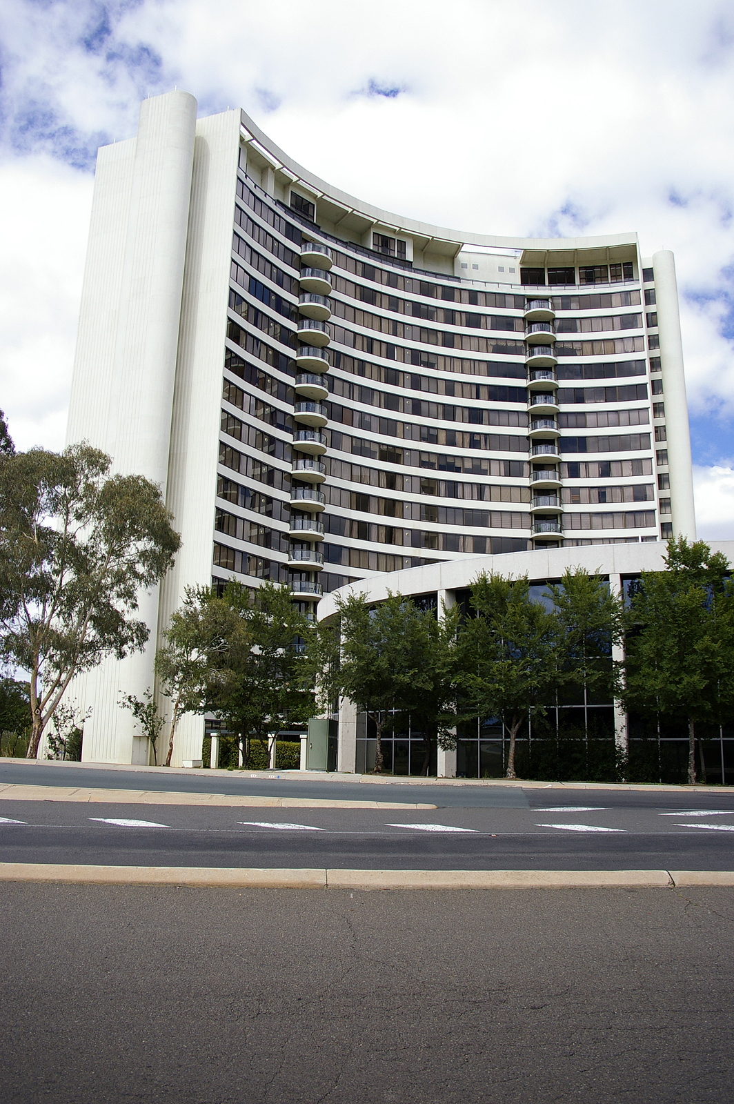 Capital Tower in Canberra, Australian Capital Territory.